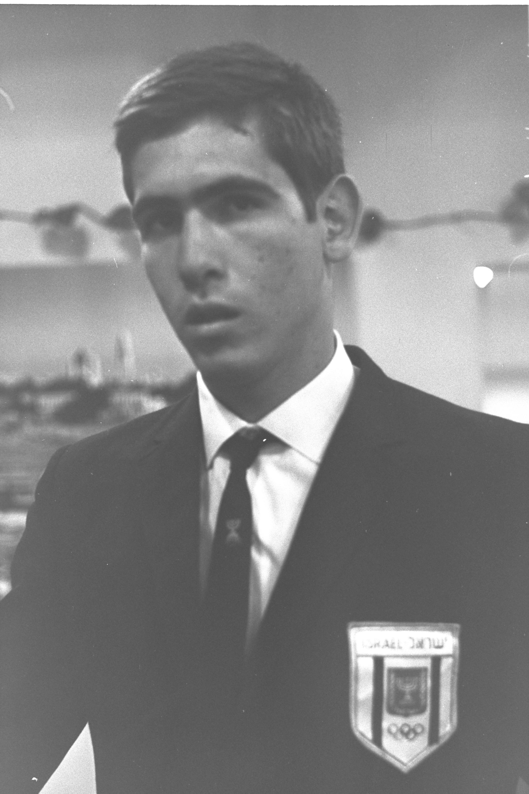 MOSHE GERTEL, MEMBER OF THE SILVER MEDAL WINNING RELAY SWIMMING TEAM TO THE ASIAN GAMES IN BANGKOK.